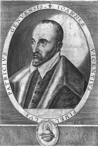 Portrait of Пинелли, Джан Винченцо из Paolo Gualdo, Vita Ioannis Vincentii Pinelli